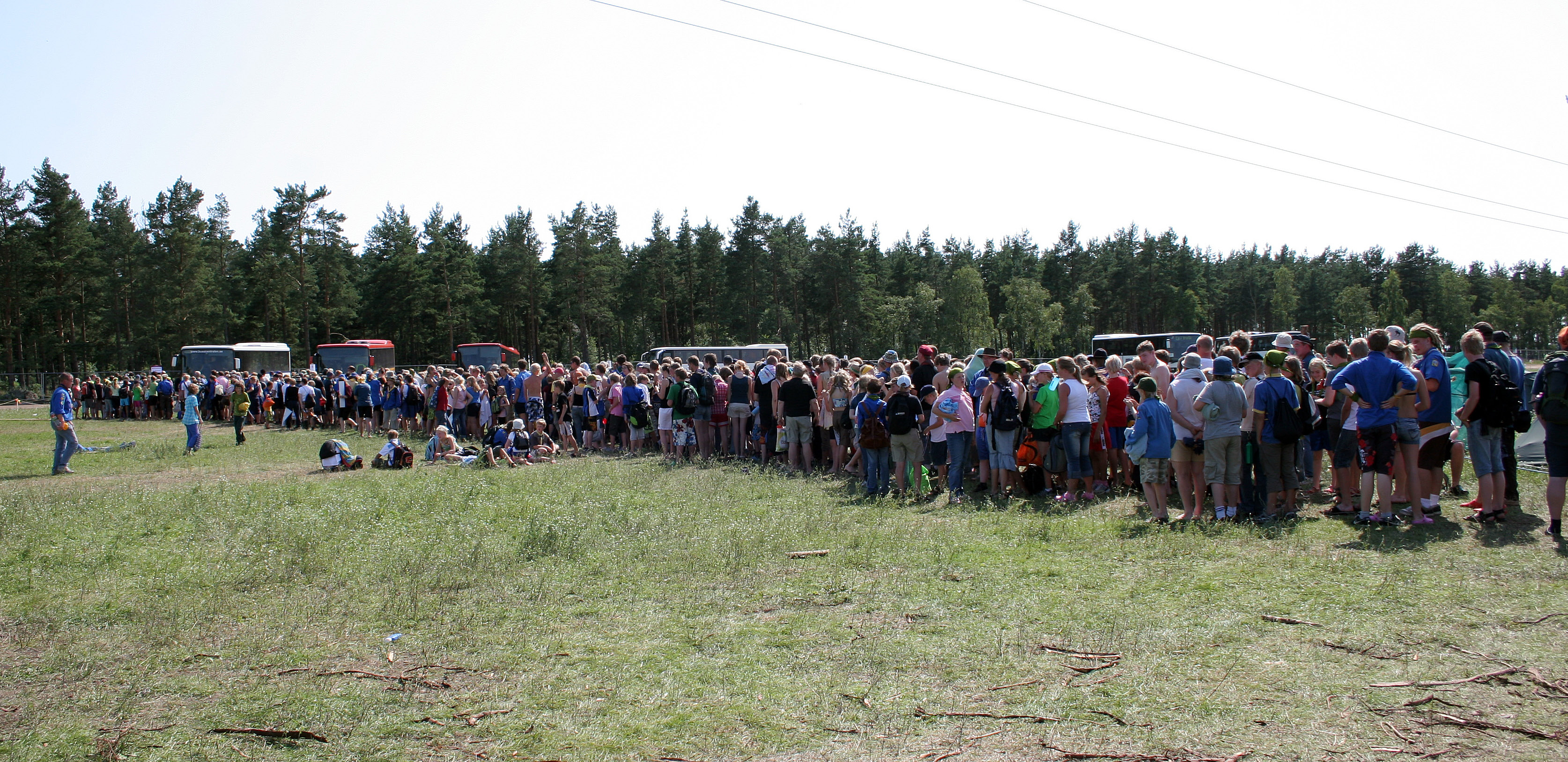 Standing in line for the beach bus at Jiingijamborii national jamboree in Rinkaby, Sweden.